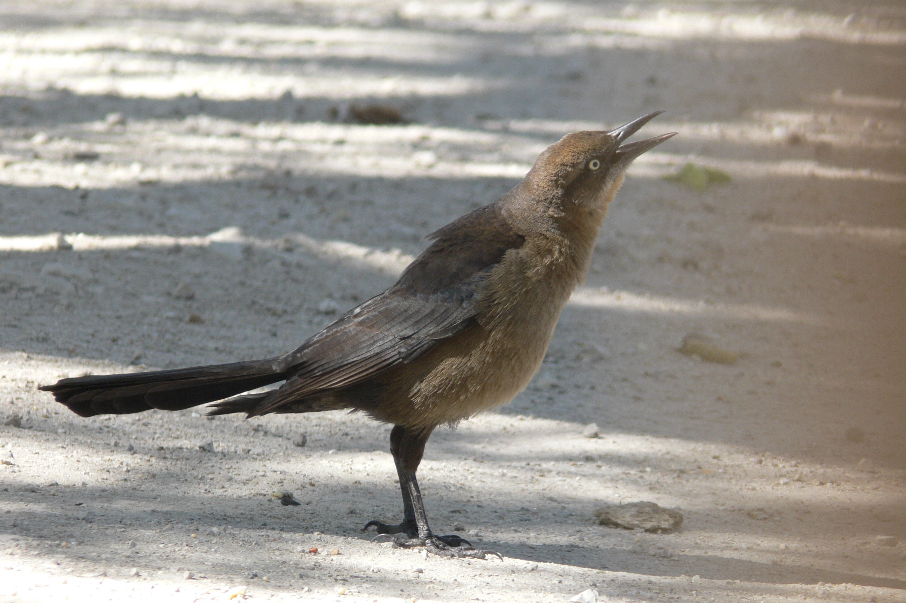 Quiscalus mexicanus Female Great-Tailed Grackle, Atascadero